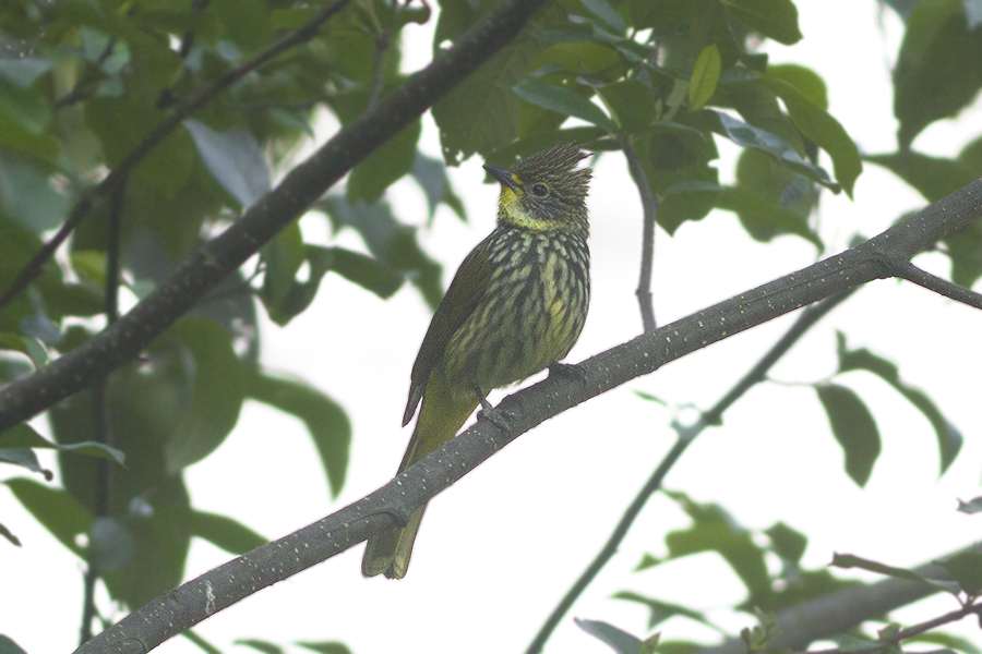 The species Striated Bulbul had been photographed from Khangchendzonga National Park in West Sikkim, India on 26.04.2016.